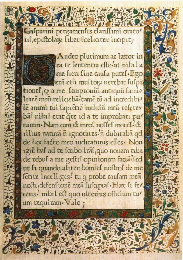 Page from the Epistolae by Gasparino Barzizza printed by Michael Friburger, Ulrich Gering and Martin Krantz in Paris, 1470. Reserve of Rare and Precious Books, Rés. Z. 1986 (Bibliothèque nationale de France). Scanned from À pleines pages : Histoire du livre, Volume Ⅰ (p. 40) by Bruno Blasselle.